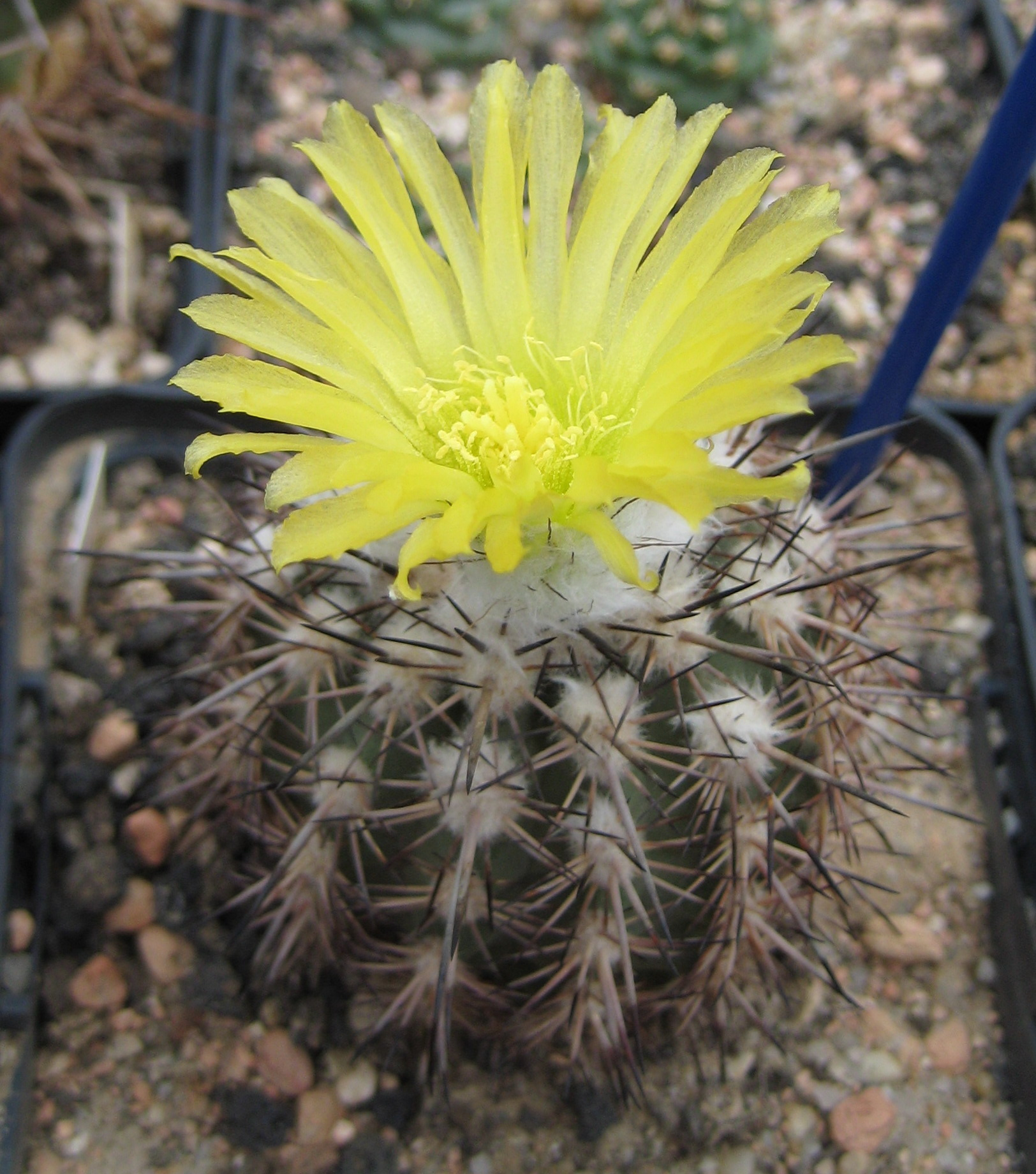 Eriosyce islayensis (Syn.: Islaya molendensis)